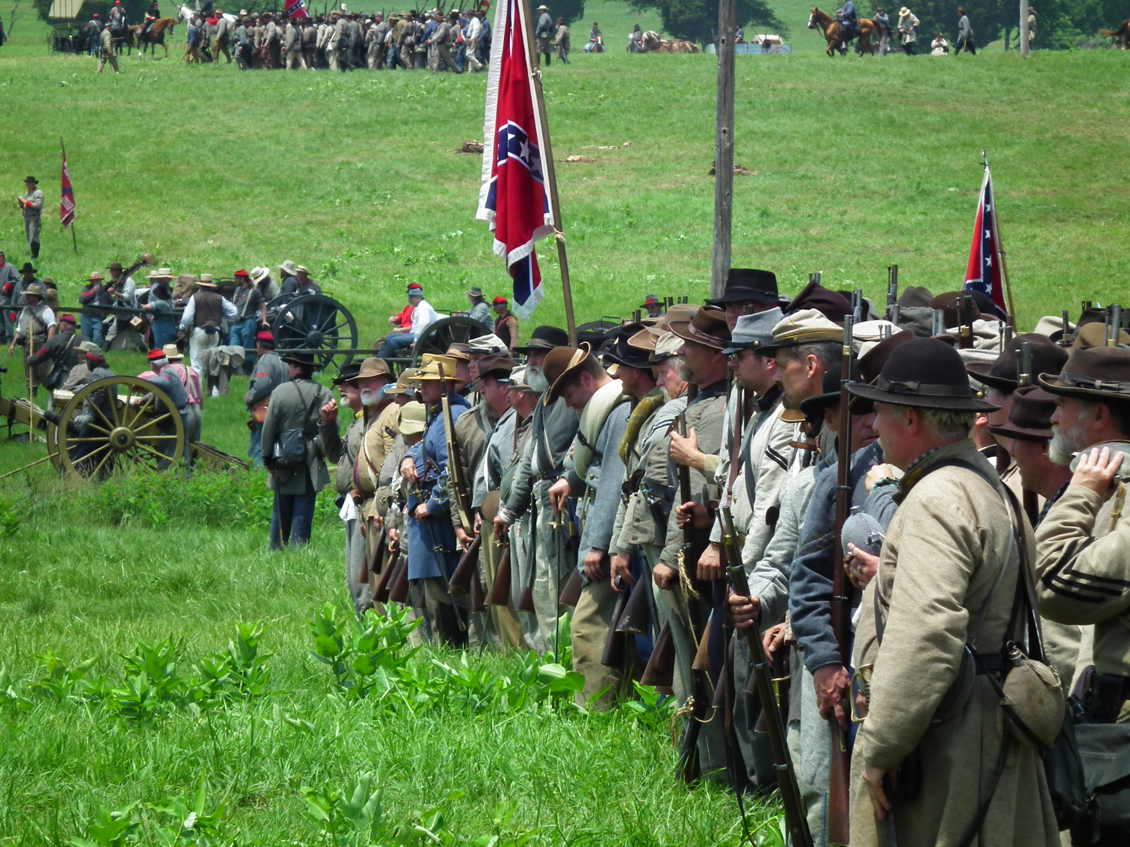 the 150TH Gettysburg Anniversary National Civil War Battle Reenactment, the single largest and one of the most pivotal military engagements ever fought on American soil.